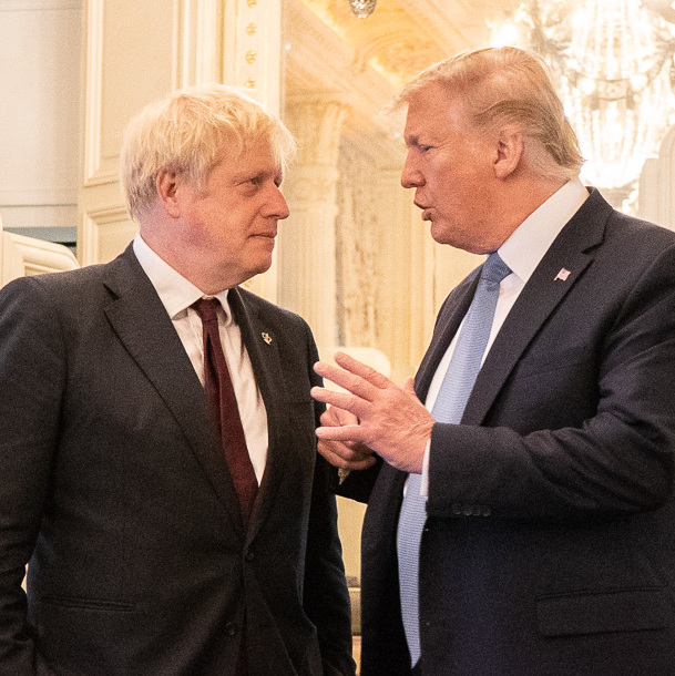 President Donald J. Trump and British Prime Minister Boris Johnson continue to talk at the conclusion of their working breakfast meeting Sunday, Aug. 25, 2019, at Hotel du Palais Biarritz in Biarritz, France, site of the G7 Summit.